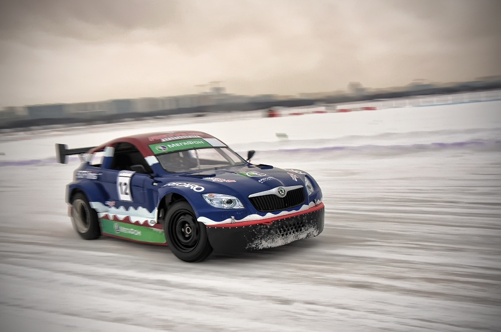 MitJet Series